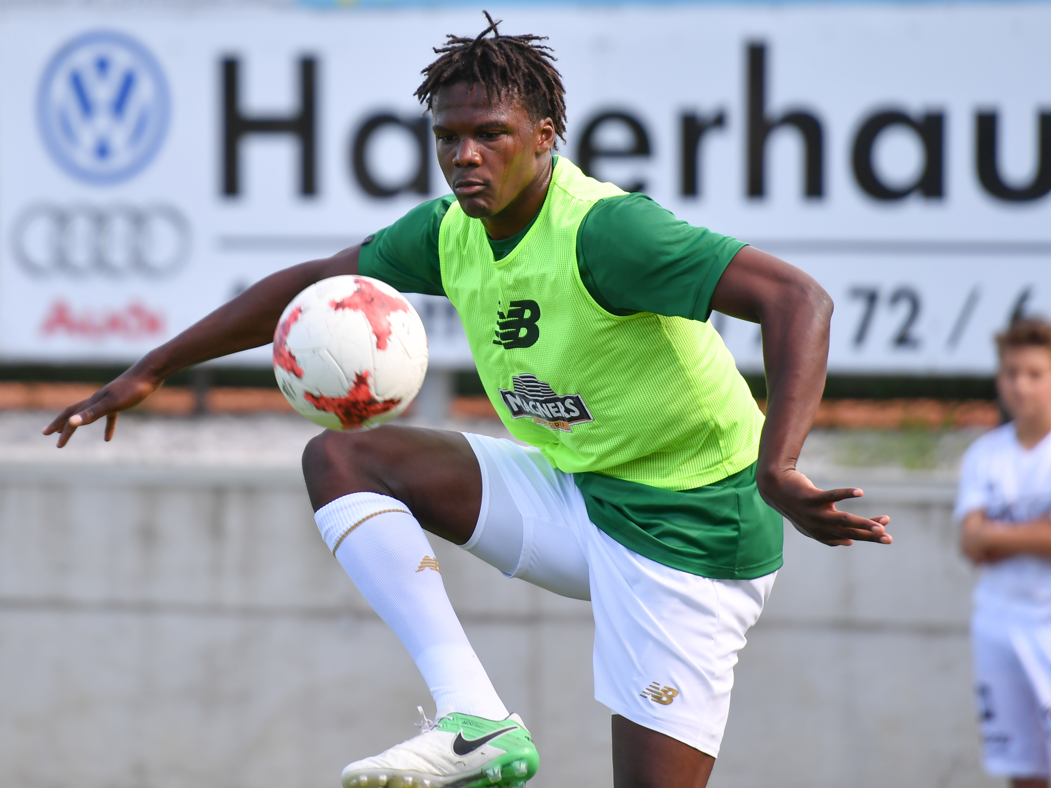 1/7/2017, Amstetten, Austria, sports, soccer, Tipico Fussball Bundesliga - preparation match SK Rapid Wien vs Celtic Glasgow. Image shows Dedryck Boyata (Celtic FC).